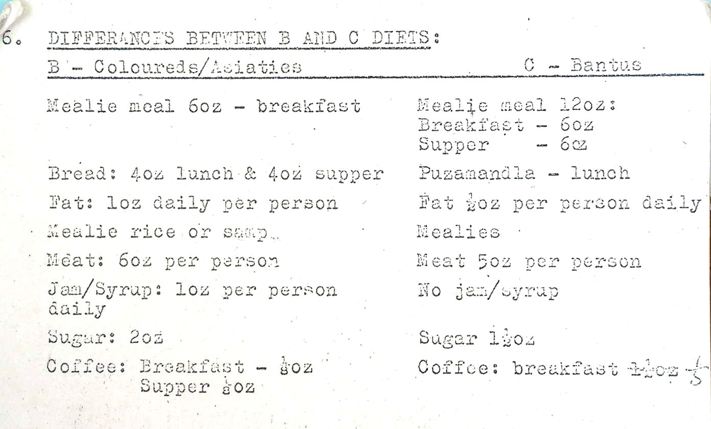 Menus B and C from Robben Island Prison, South Africa